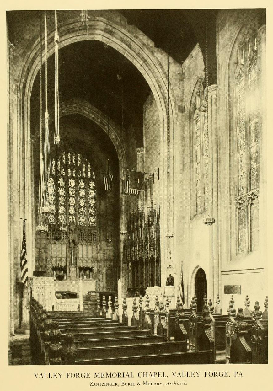 Photograph of the interior of the Washington Memorial Chapel, Valley Forge, Pennsylvania.